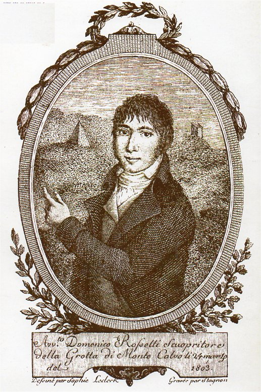 back cover of the book Domenico Rossetti e la grotta di monte Calvo di Pasquale Spadaccini